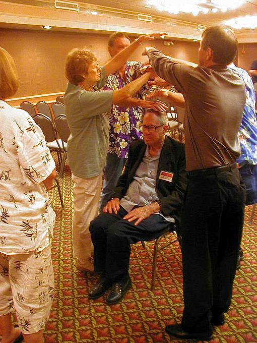 UFO researcher James W. Moseley is "levitated" in a chair at the National UFO Conference in Hollywood, California in 2004.